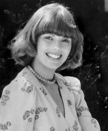 Photo of Toni Tennille from the premiere of the television program Captain & Tennille.